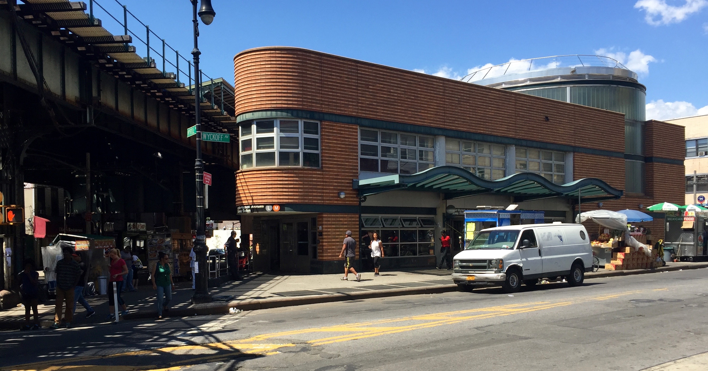 Stationhouse at Myrtle–Wyckoff Avenues on the L/M.